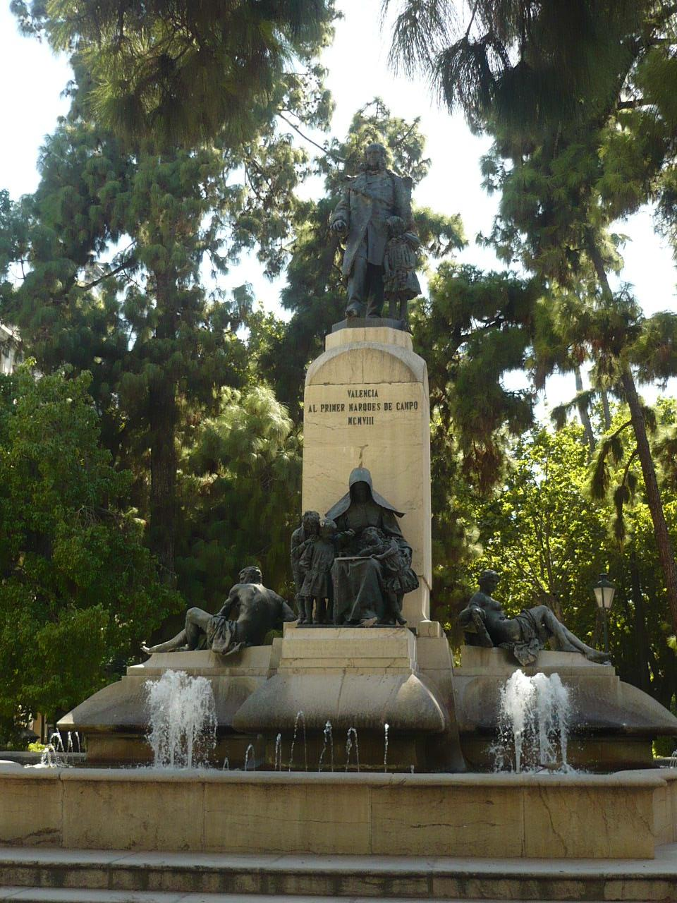 Fuente Plaza de Canovas de Valencia.